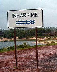 Inharrime signpost on the highway, Mozambique